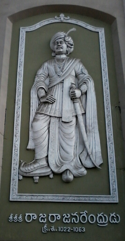 King Rajaraja Narendra founder of Rajahmundry city